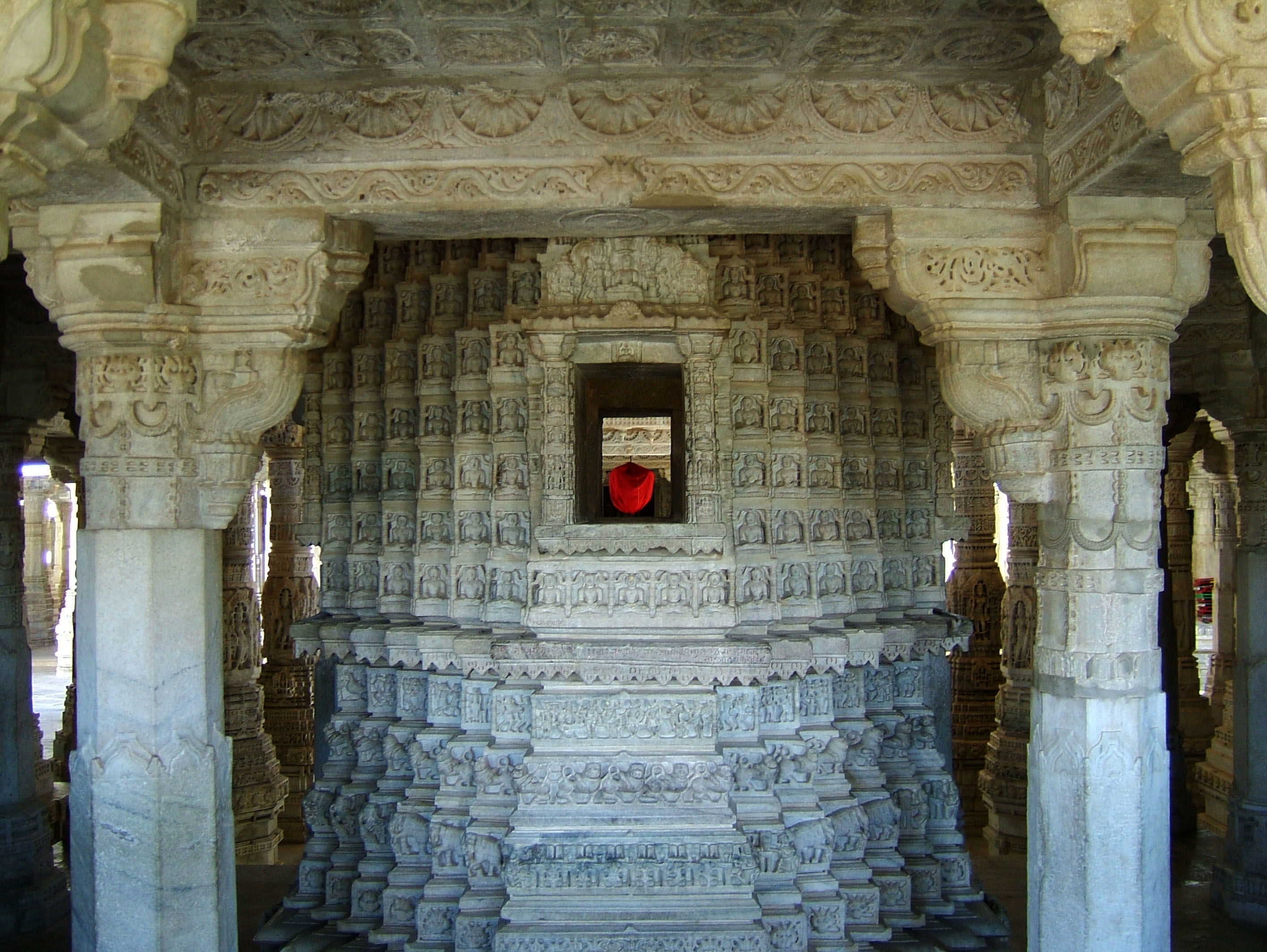 Jain Marble Temple main shrine, Ranakpur, Pali district, India